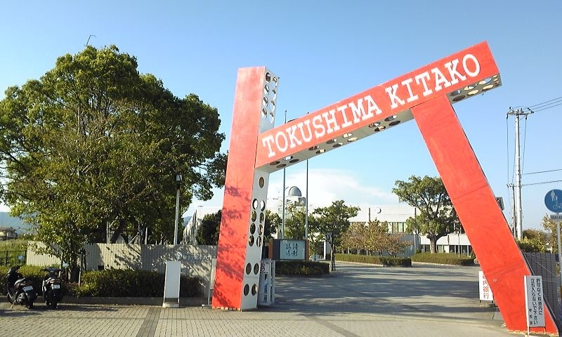 This is a picture of "Tokushimakita Senior High School's gate". Then this was decorated.